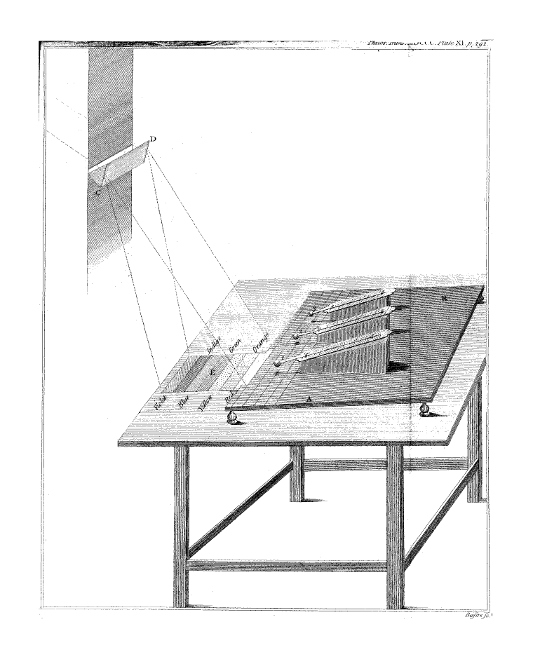 William Herschel's experiment - discovery infrared rays. From Philosophical Transactions of the Royal Society of London, Volume 90, pp. 284-292, year 1800.